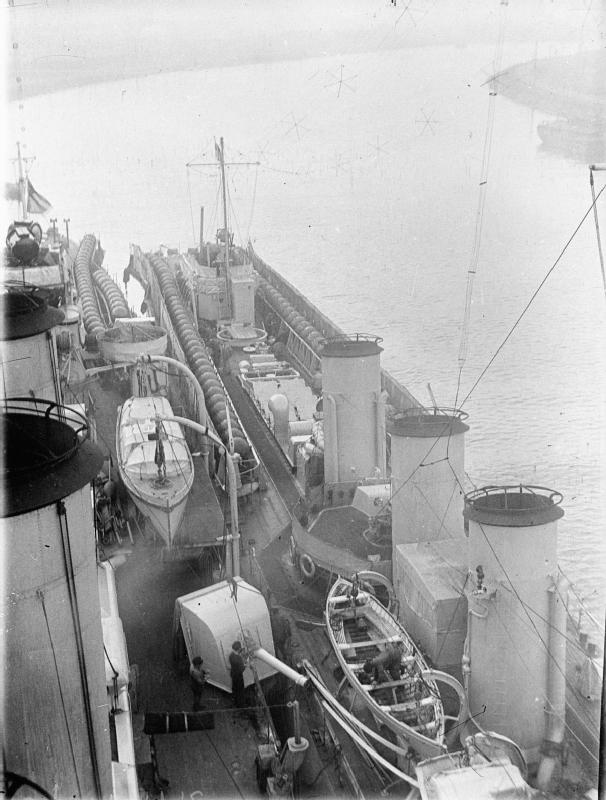 On the right is Marksman class destroyer HMS ABDIEL, minelaying flotilla leader; on the left is Arethusa class cruiser HMS AURORA. Both ships are carrying mines towards the stern, shielded behind canvas screens. A 4 inch Mk V gun is seen on the port side of Aurora, protected by a shield.